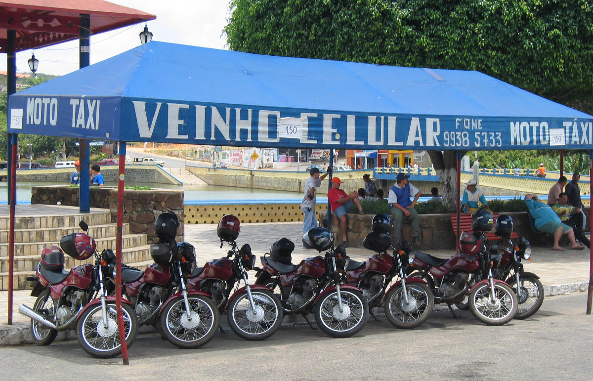 Moto Taxi stand in the city of Triunfo in the state od Pernambuco in the northeast region of Brazil. Behind the lake some off-road taxi wait for passengers near the bus terminal.